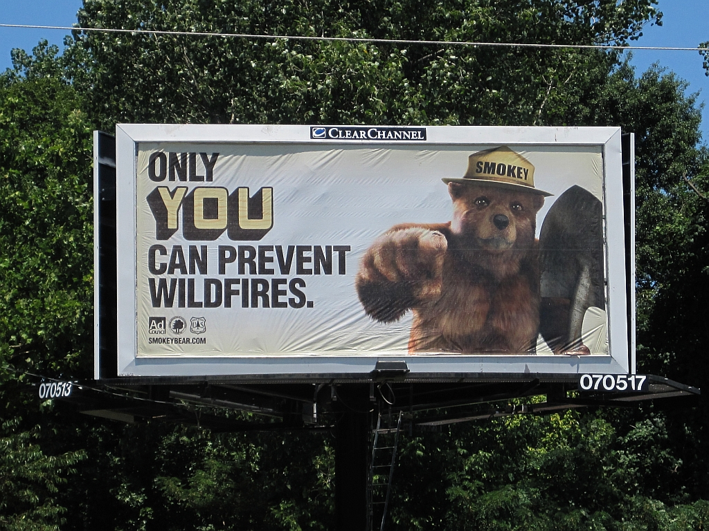 Smokey Bear billboard "Only you can prevent wildfires"